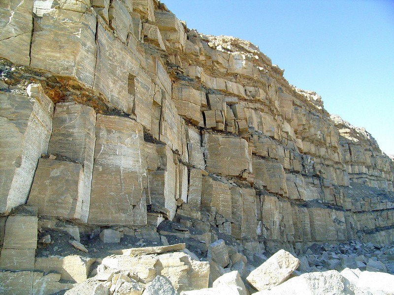 Gypsum quarry in Machtesh Ramon